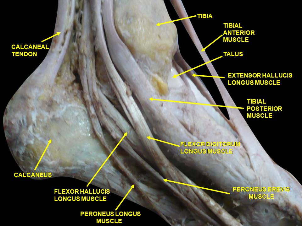 Anatomical dissections